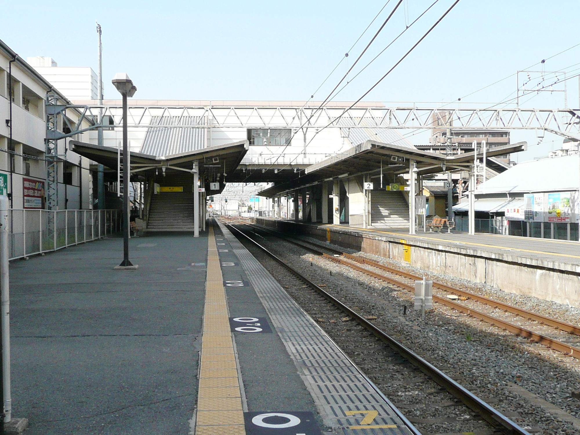 West Japan Railway,Gakkentoshi-Line,Tokuan Station platform. / 学研都市線徳庵駅ホーム